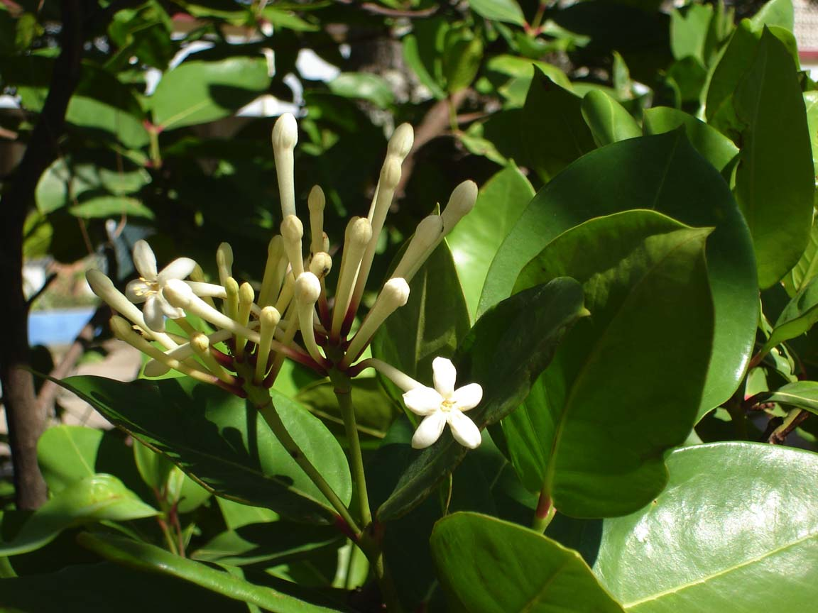 Phaleria disperma (Forster f.) Baillon; "huni" in Tonga